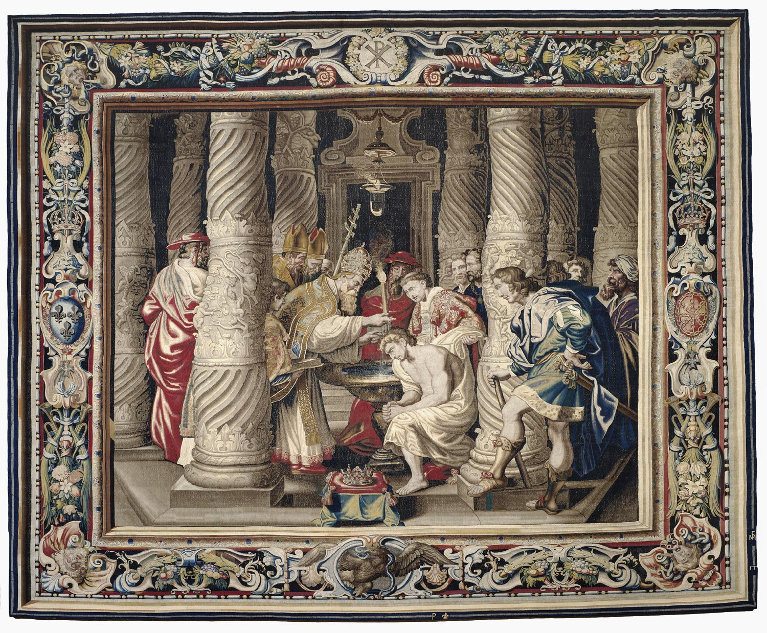 Tapestry showing the Baptism of Constantine. Wool and silk and silver and gold threads. 477.5 × 545.5 cm. Philadelphia Museum of Art. Inventory number 1959-78-4.